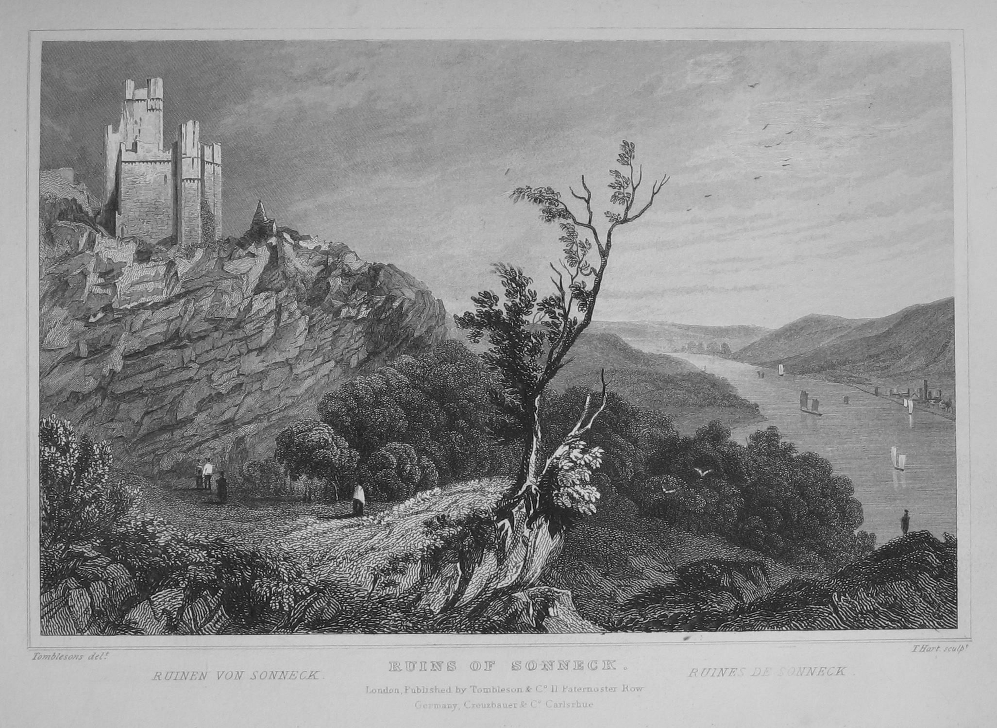 Steel engraving from "Views of the Rhine" by William Tombleson (around 1840): Ruins of Sooneck Castle